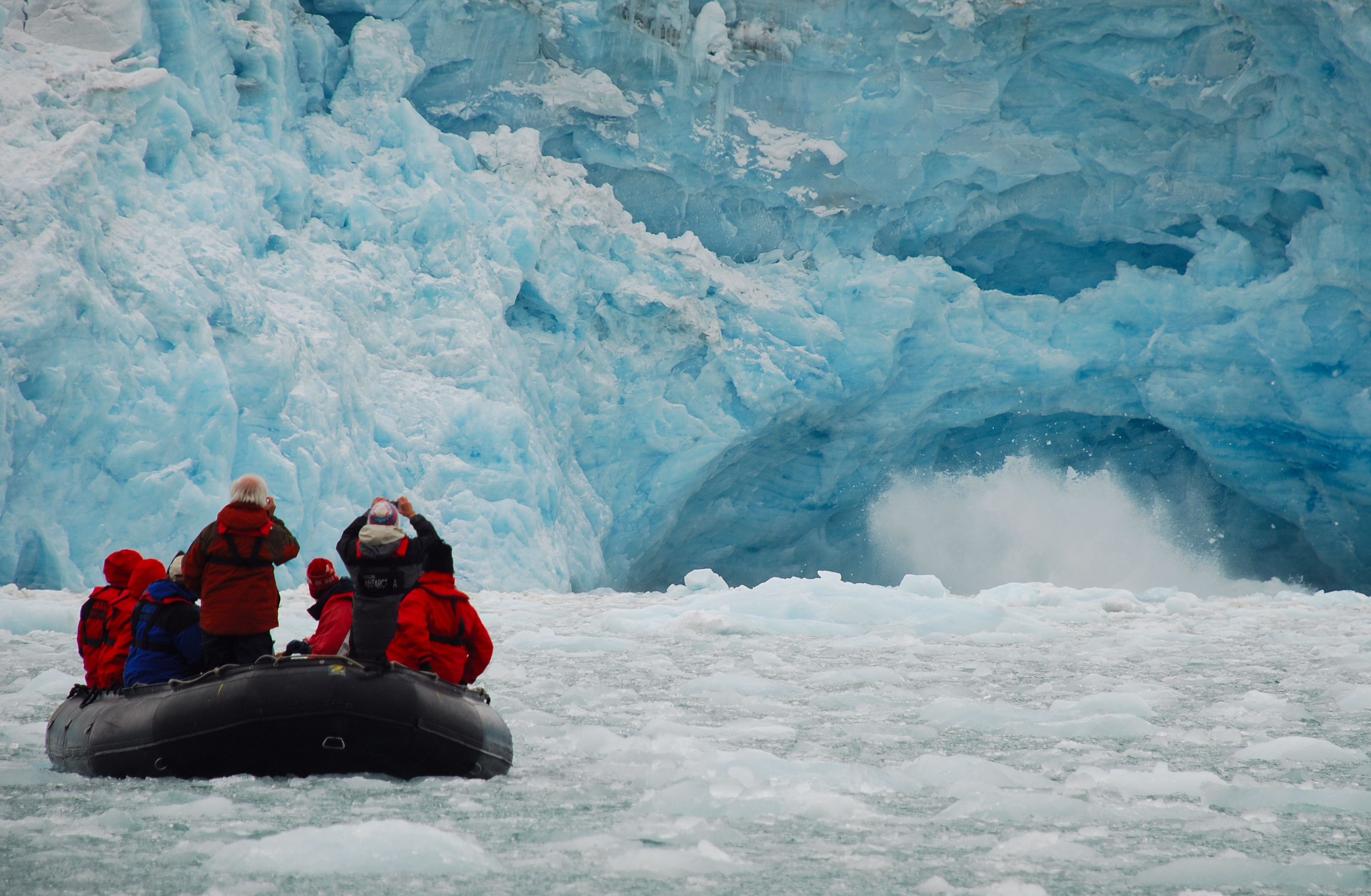 Ecotourism in Svalbard.